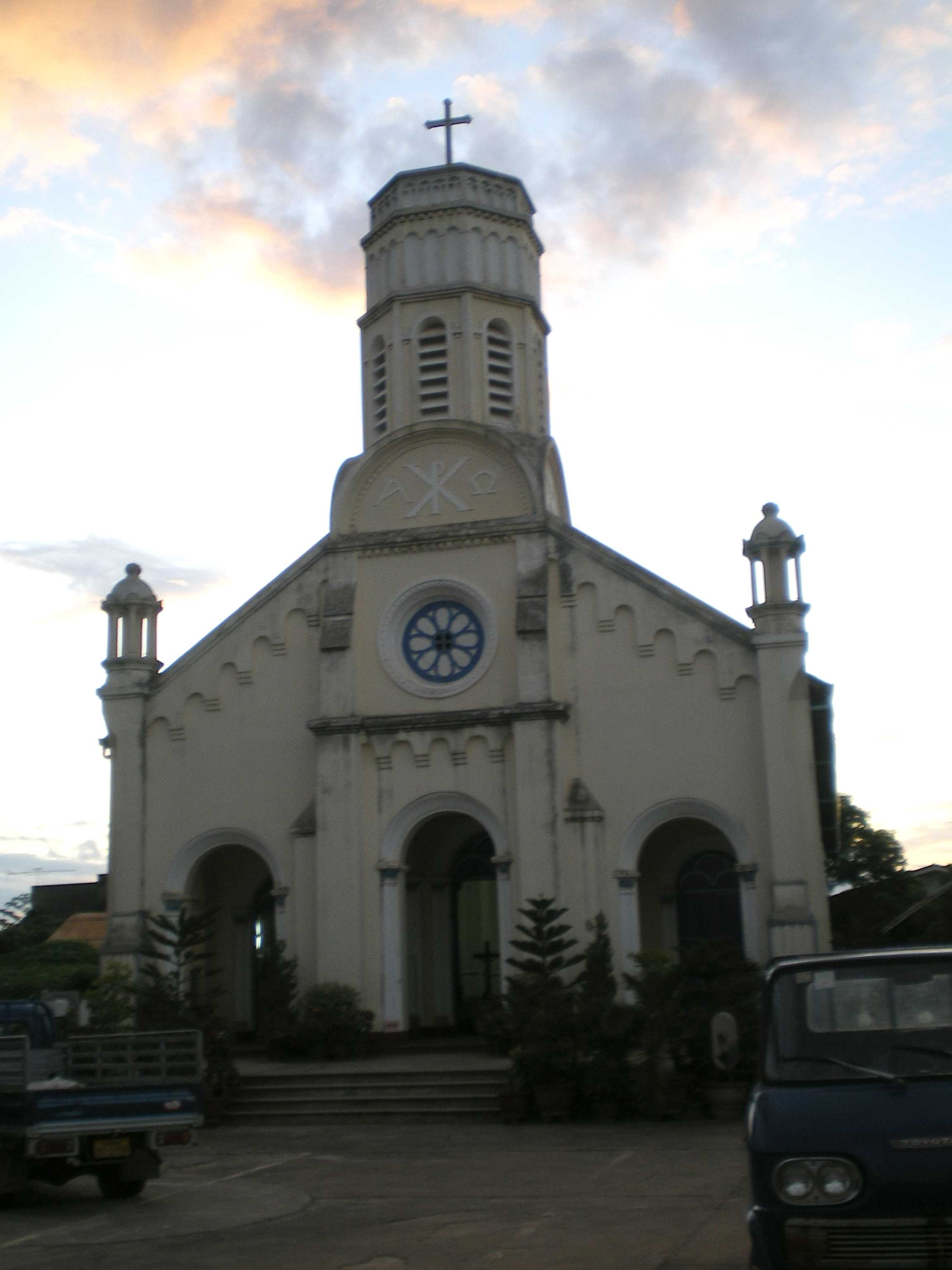 The Roman Catholic Church (pro-cathedral) in the city of Savannakhet, Laos. Picture taken at dawn.